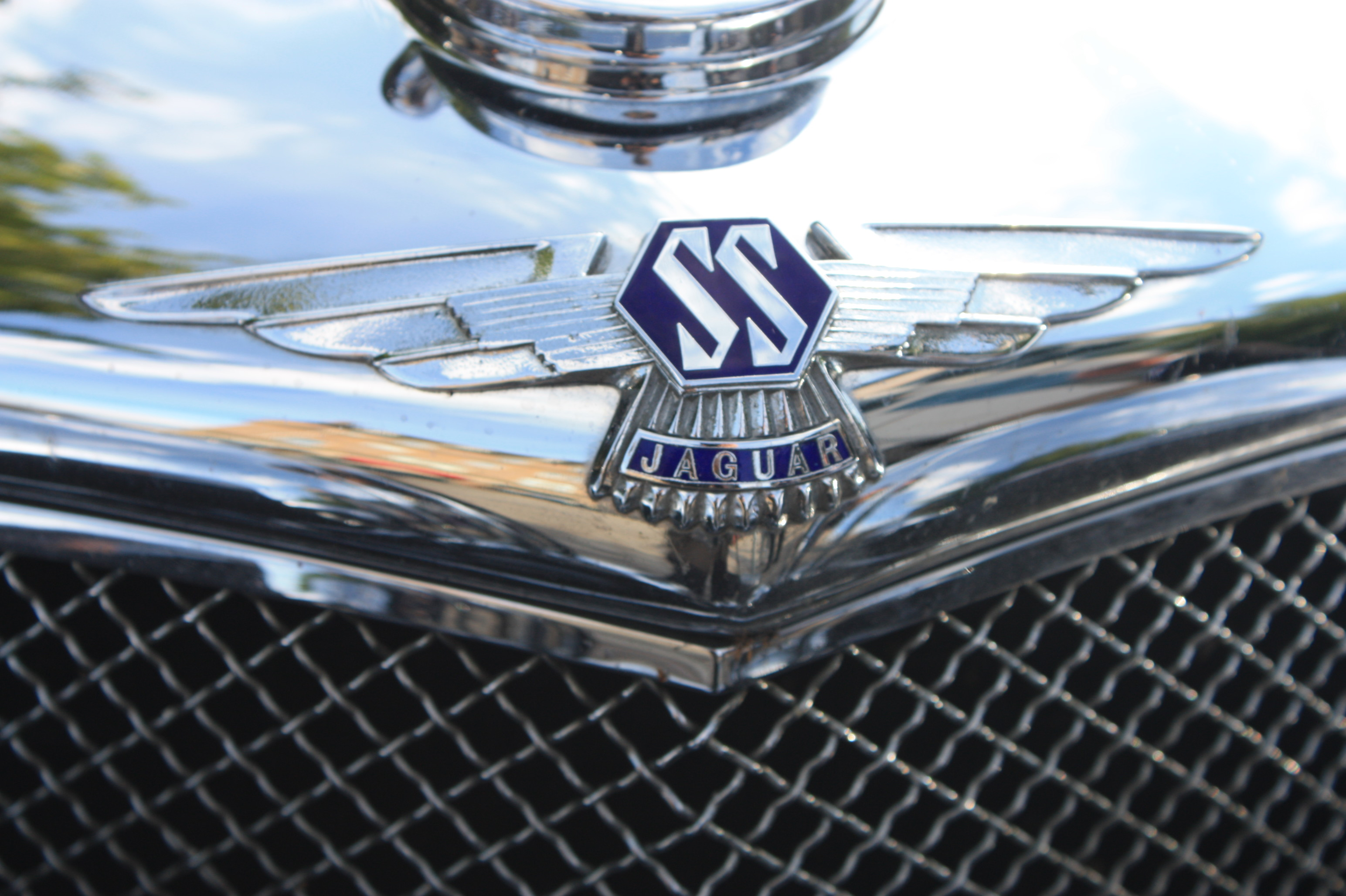 The original SS Jaguar marque